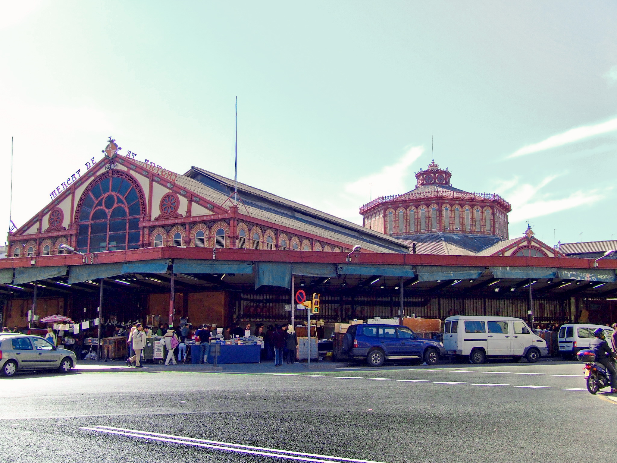 Barcelona